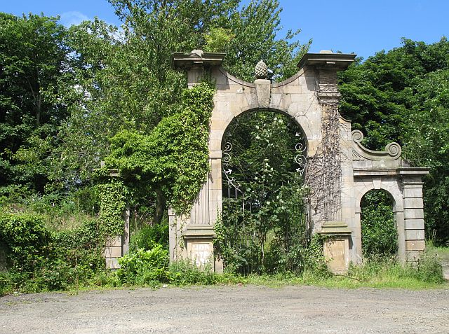 Gate, Hatton House Ivy covered and very much disused. Under the pineapple is the date 1692, but either side, suggesting a rebuild is 1829.